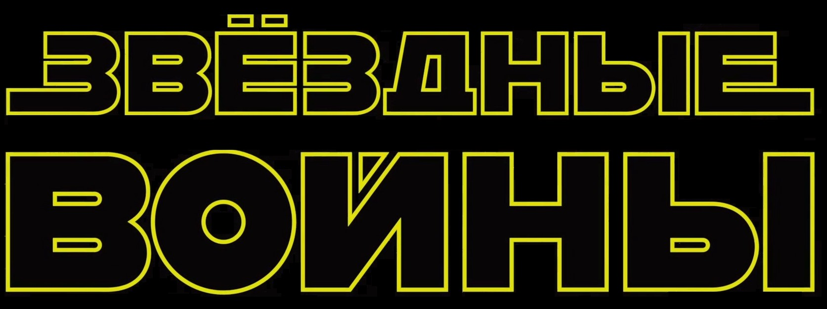 Russian-language Logo of .